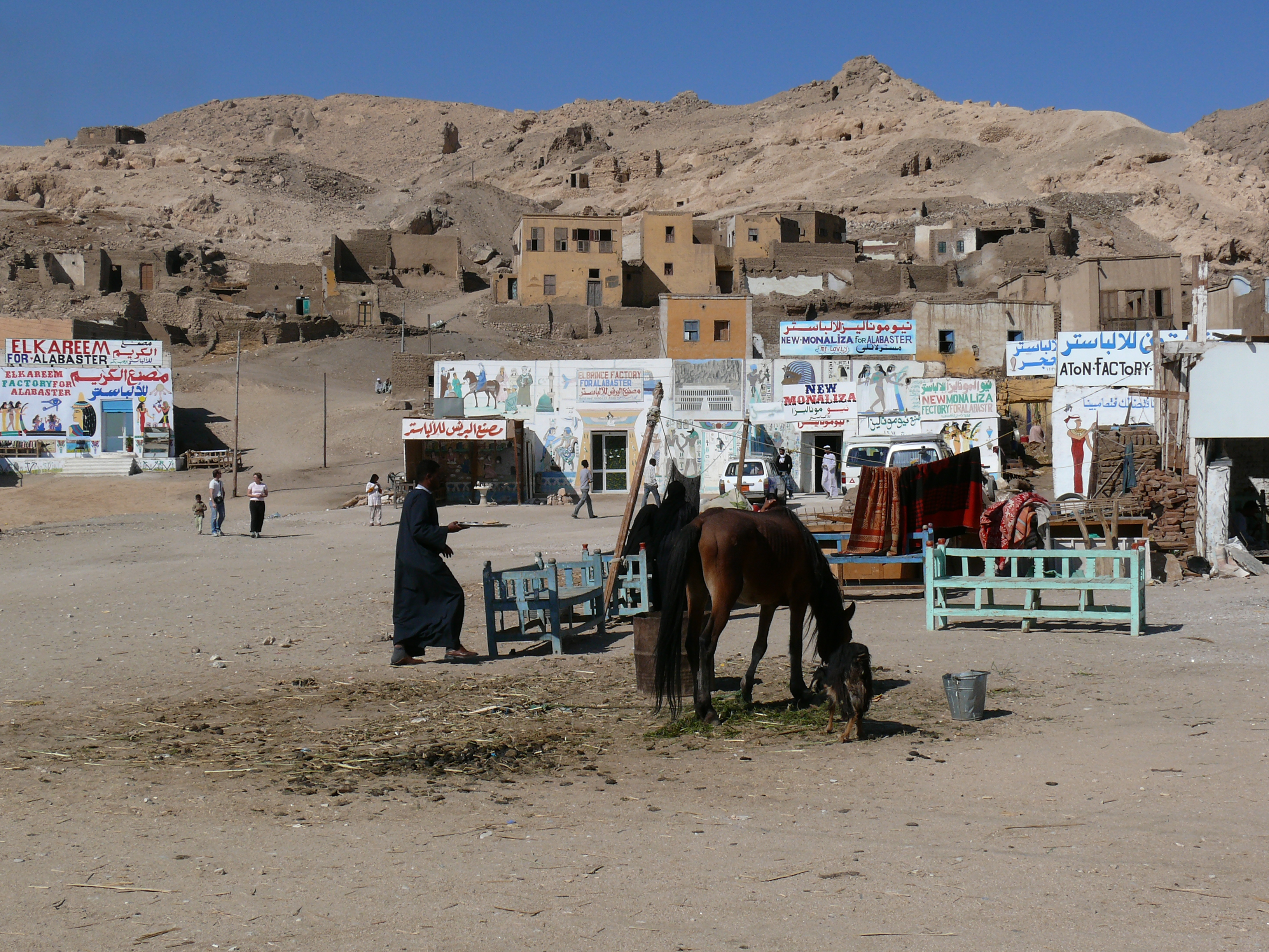 Sheikh Abd el-Qurna, Egypt